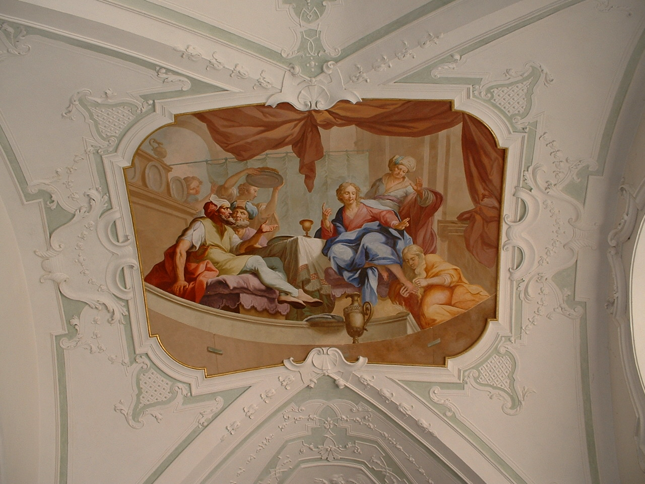 Ochsenhausen Abbey, church interior, ceiling painting, Apostles' Creed